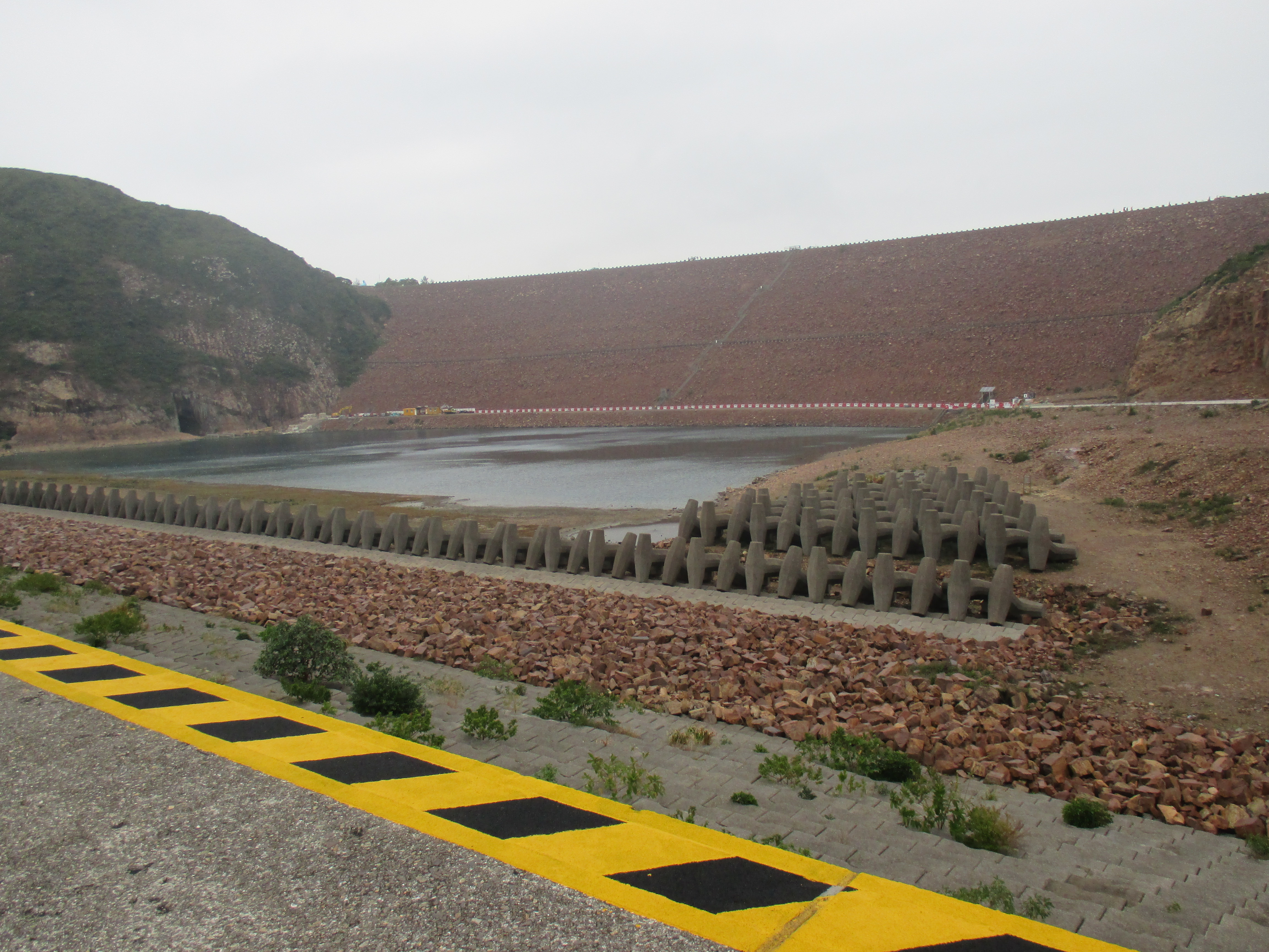 East Dam, High Island Reservoir, Sai Kung District, Hong Kong